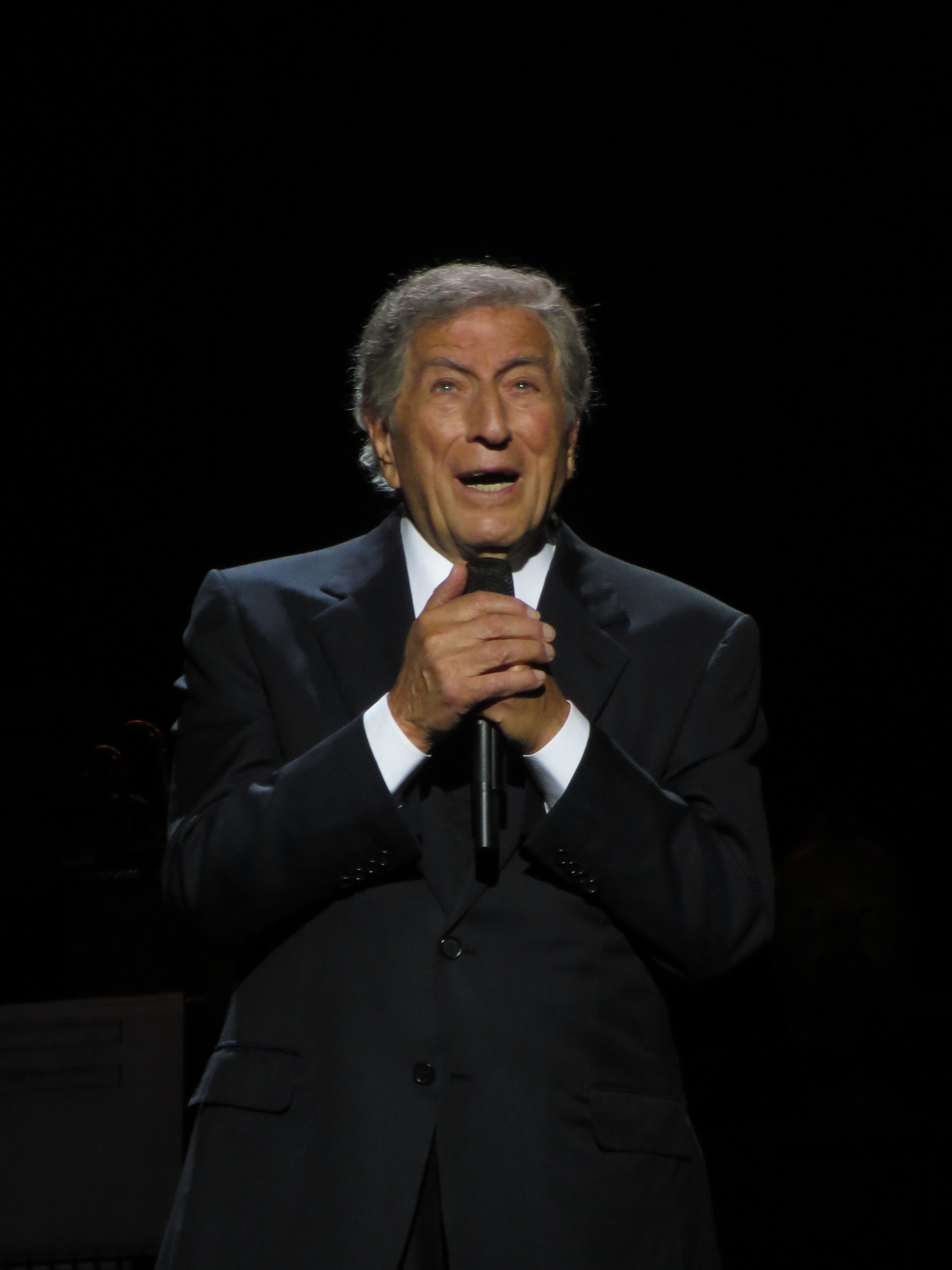 Tony Bennett & Lady GaGa, Cheek to Cheek Tour, London Royal Albert Hall, 8 June 2015.